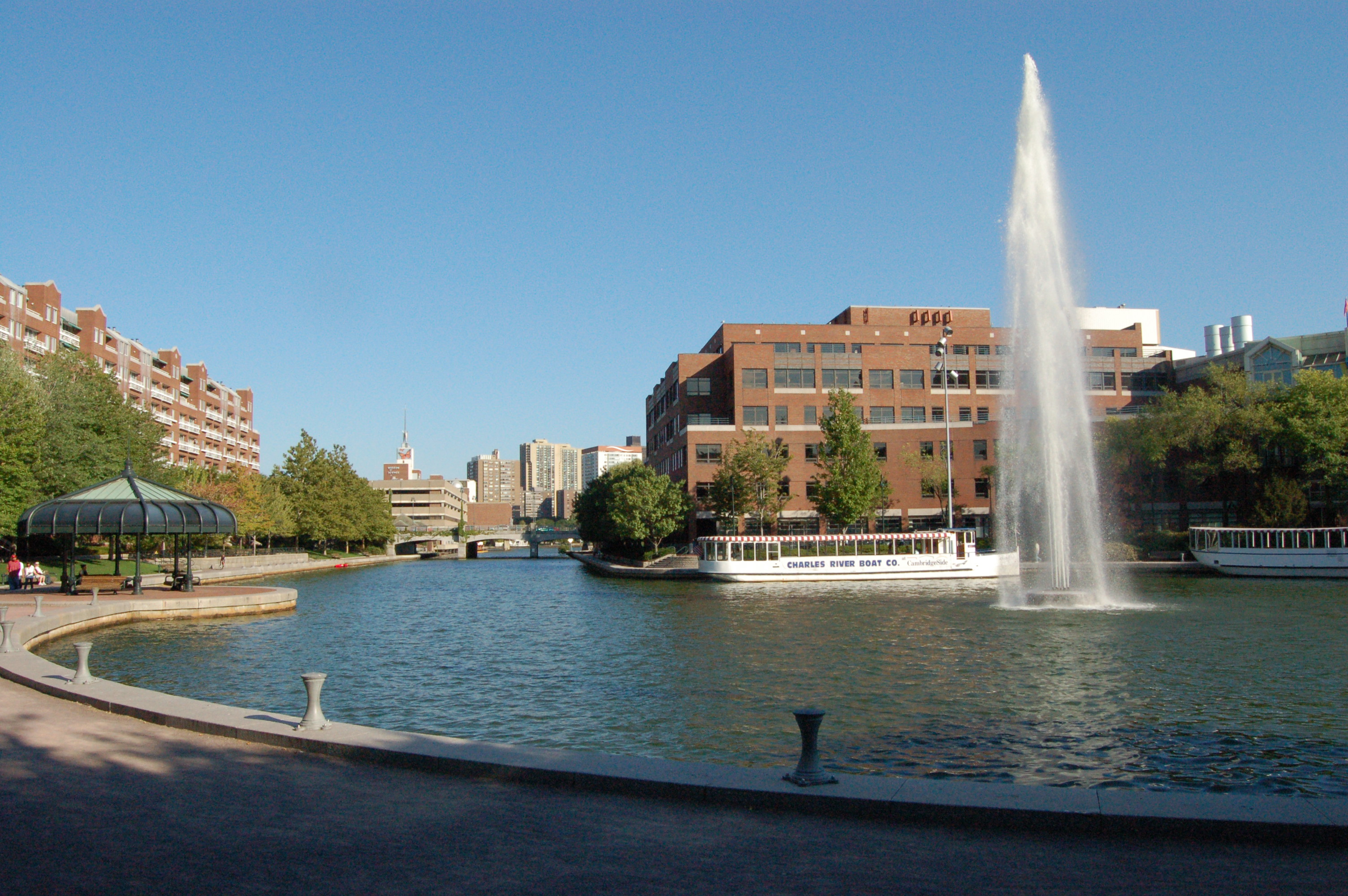 Lechmere Canal Park in East Cambridge, Massachusetts